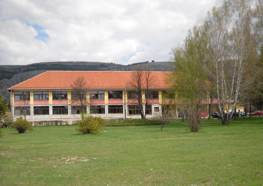 Primary school Ivan Goran Kovacic in Livno